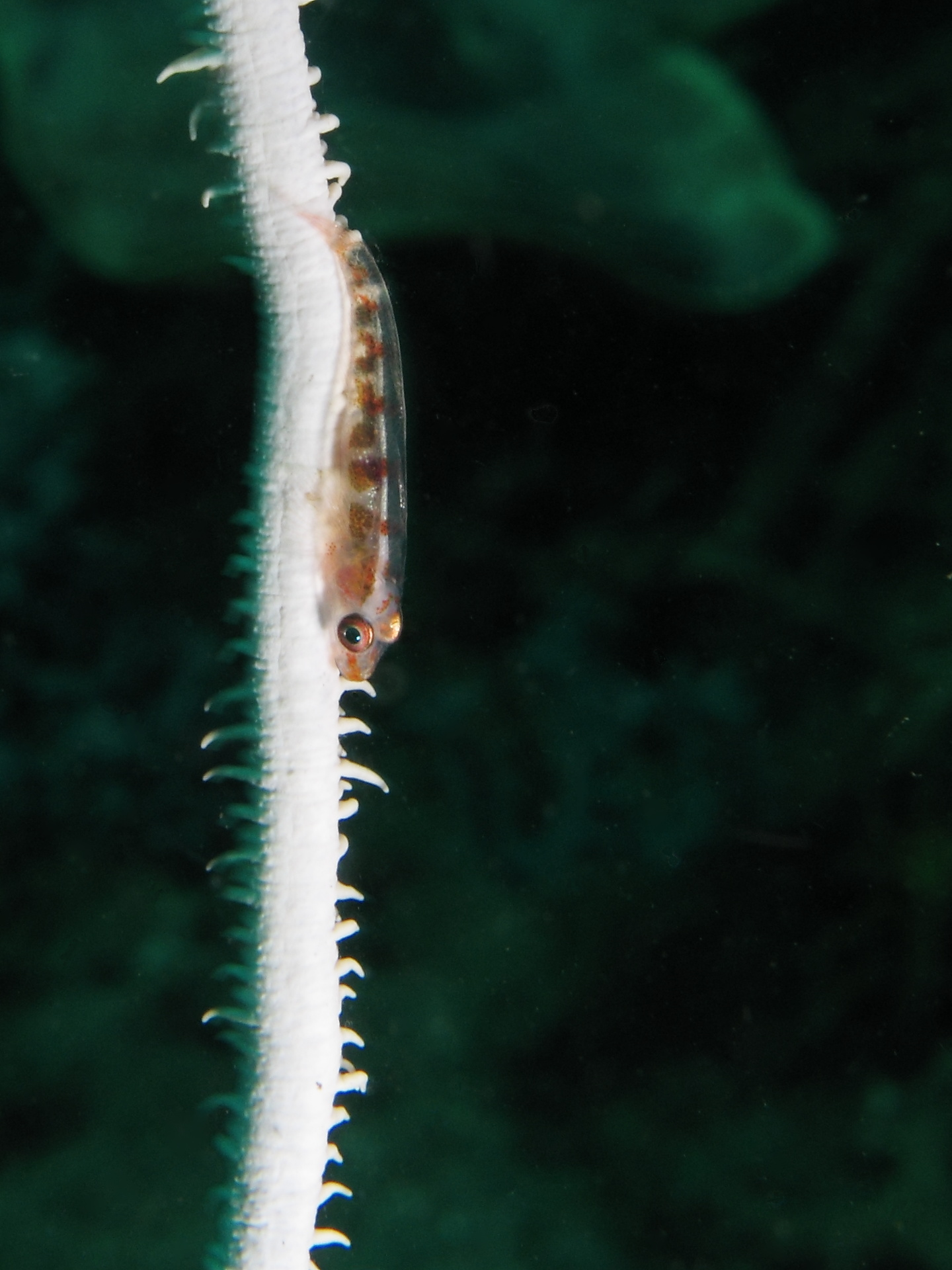 Whip coral goby (Bryaninops yongei) at Bima bay (near Sumbawa, Indonesia)